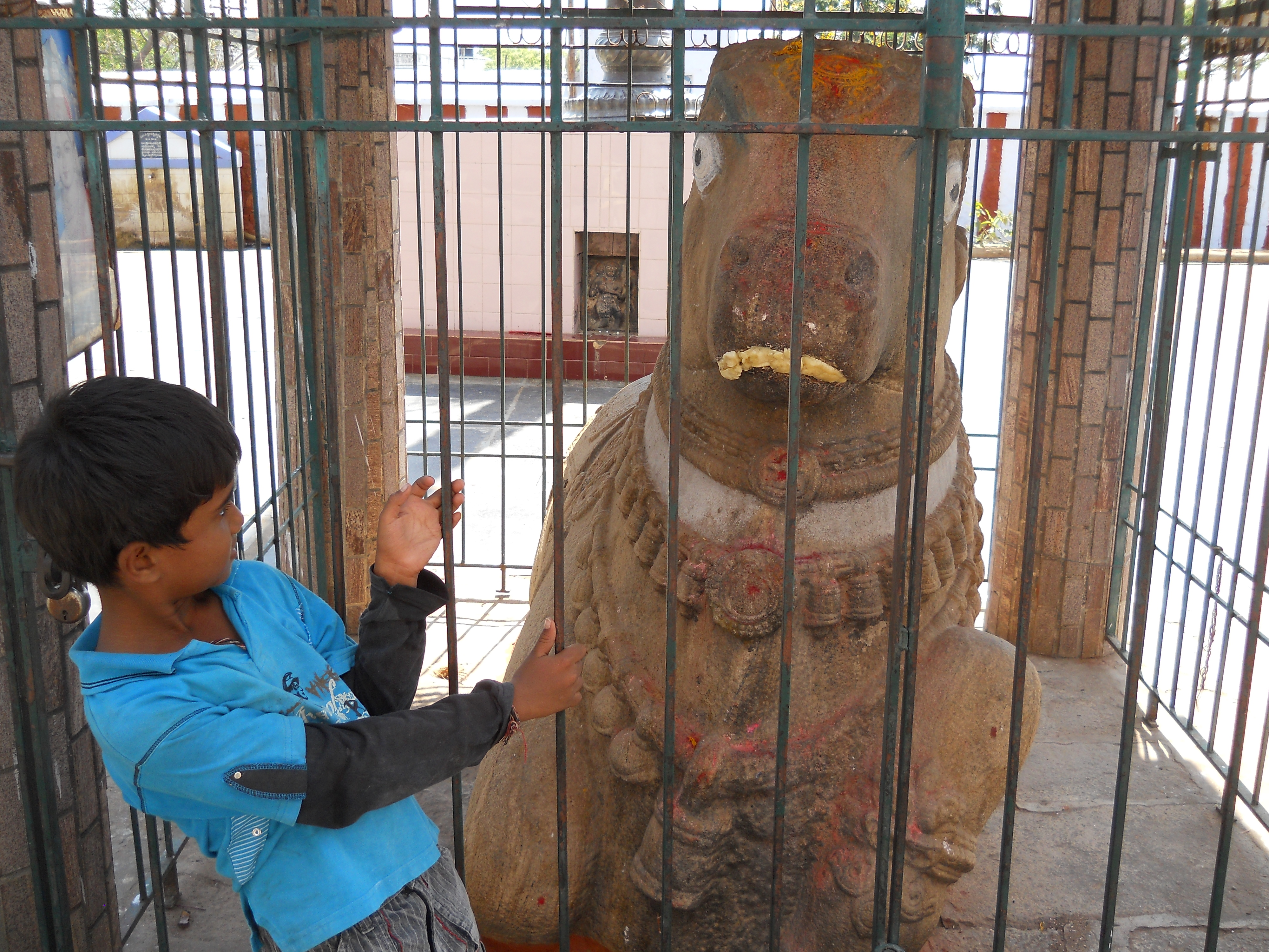 Sangameswara Temple Sangam